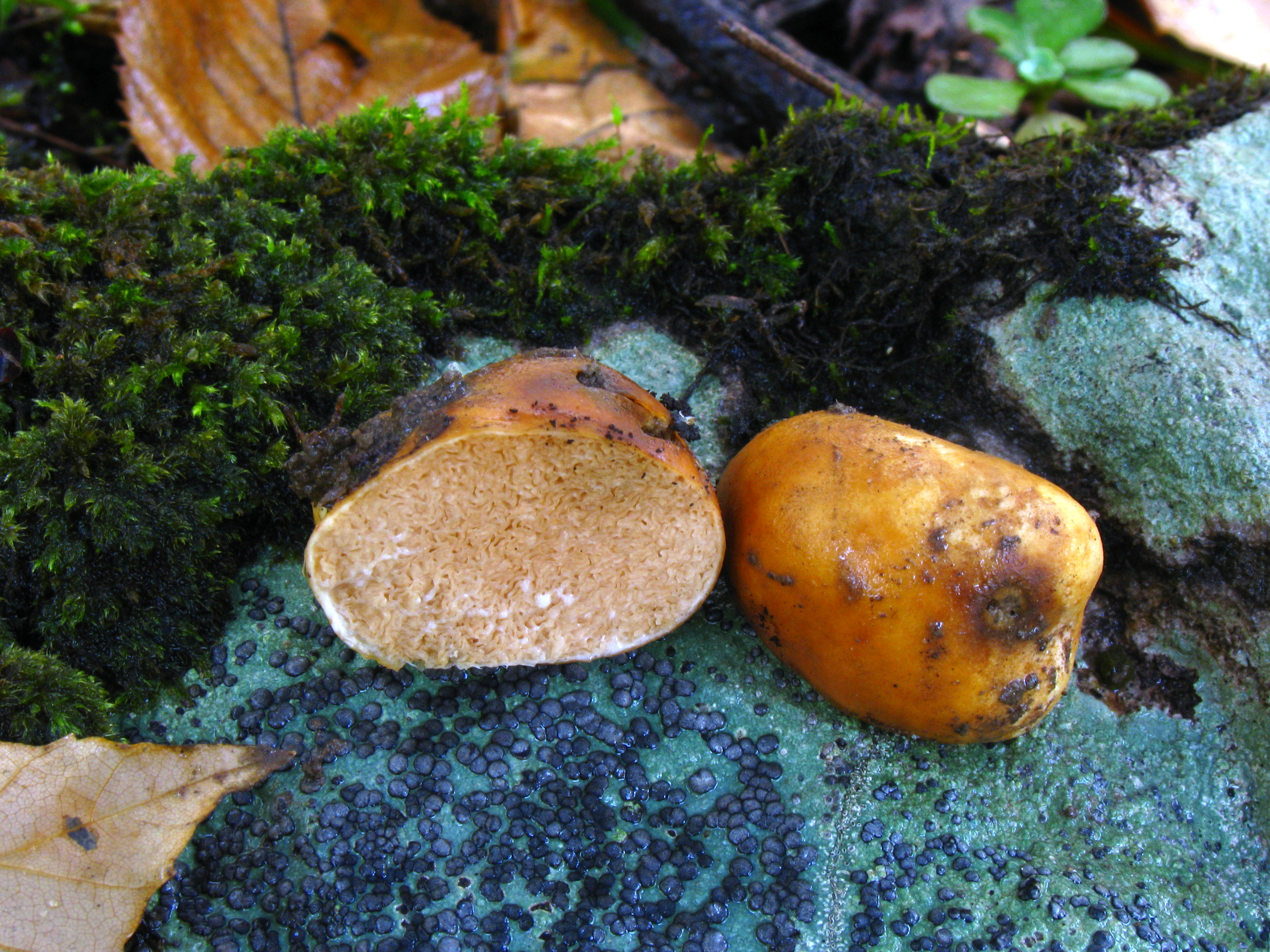 The fungus Zelleromyces cinnabarinus Singer & A.H. Sm. The small discoid species on the rock surface is the lichen Porpidia albocaerulescens. Specimens photographed in Ryerson Station State Park, Pennsylvania, USA.